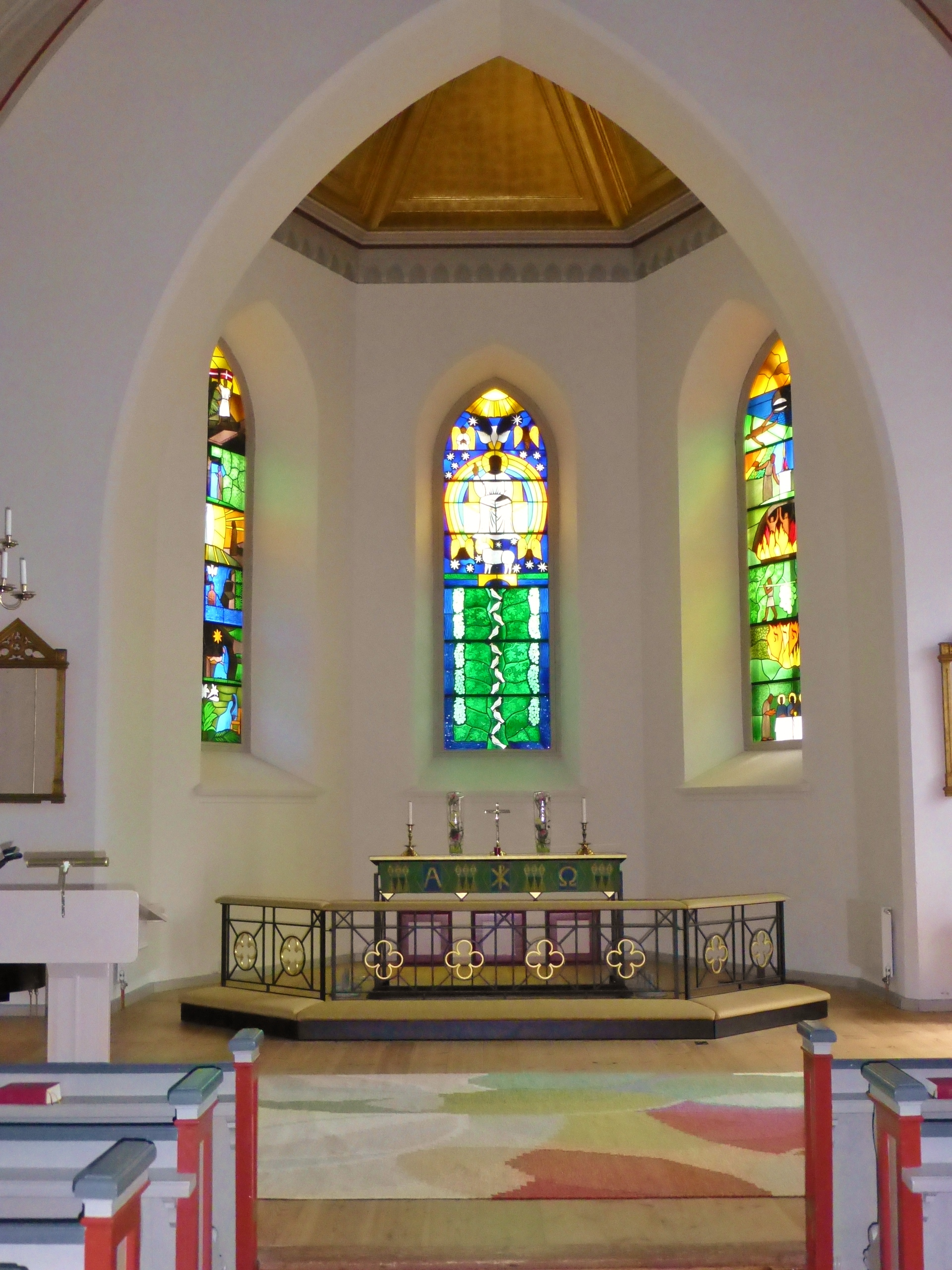 Rödeby Church.Church choir with stained glass windows made in 1986 by the artist Pär Andersson